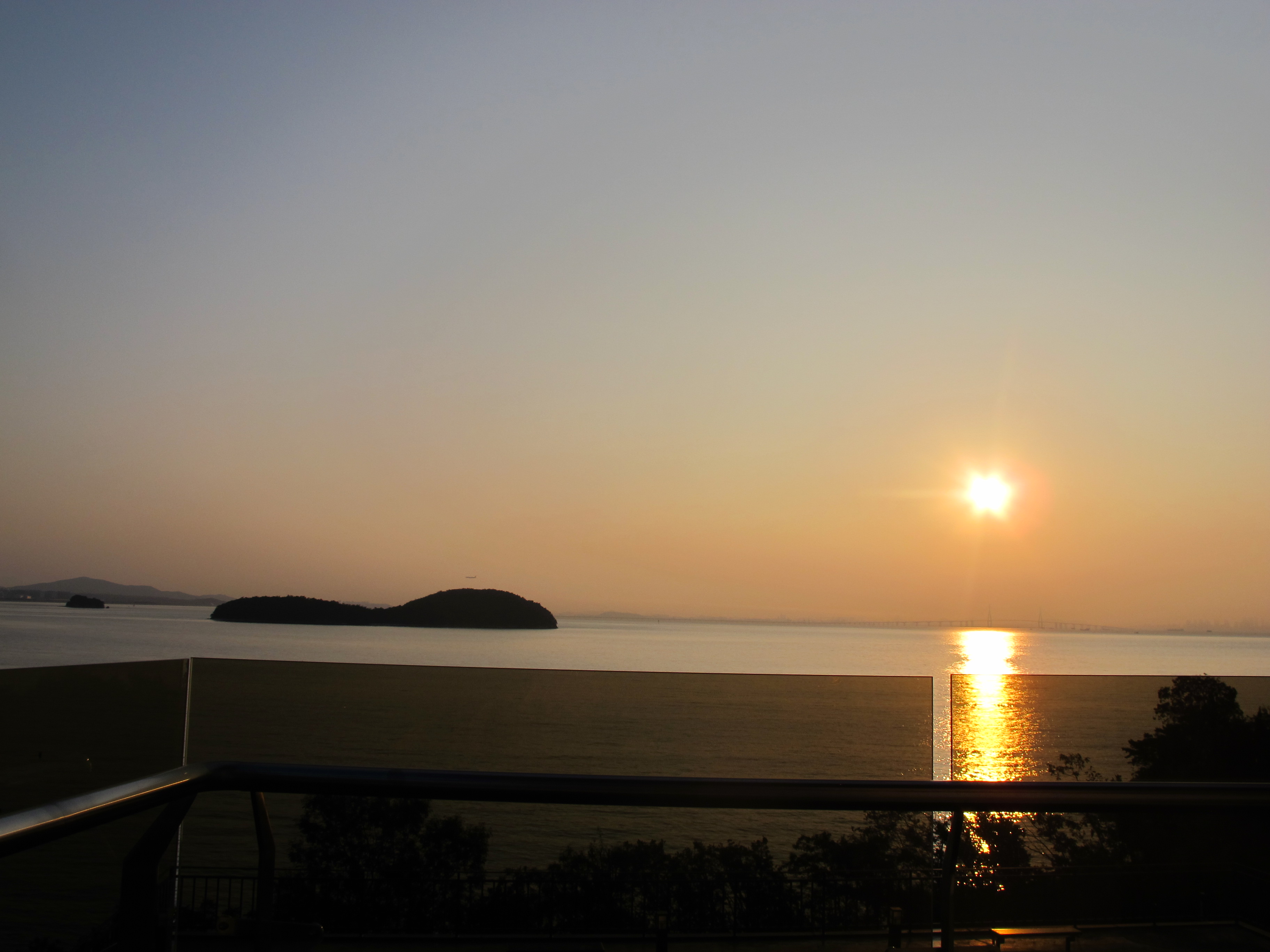 JEOMDONG